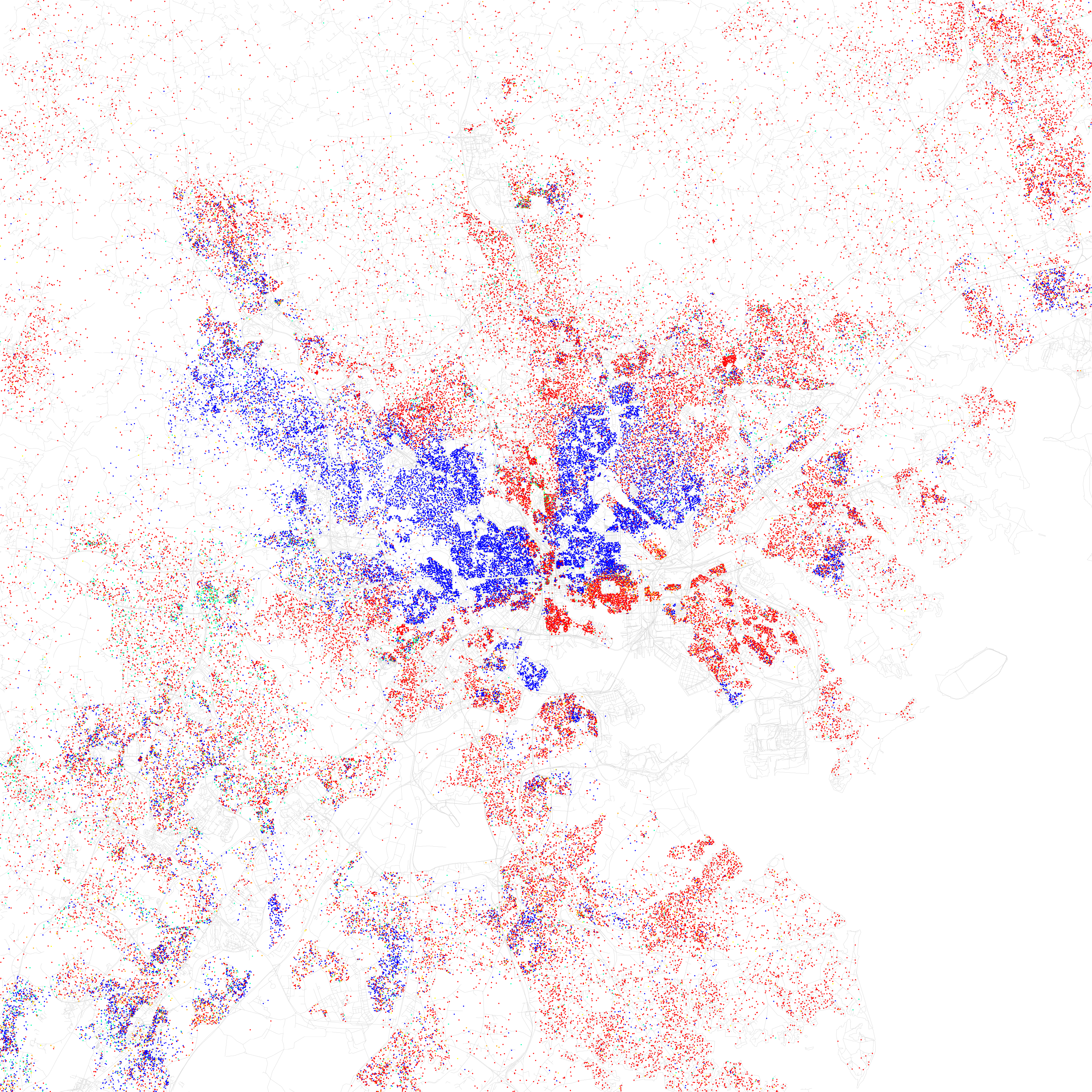 Maps of racial and ethnic divisions in US cities, inspired by Bill Rankin's map of Chicago, updated for Census 2010. Red is White, Blue is Black, Green is Asian, Orange is Hispanic, Yellow is Other, and each dot is 25 residents. Data from Census 2010. Base map © OpenStreetMap, CC-BY-SA